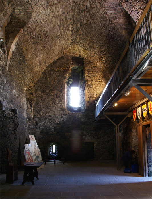 Dundonald Castle, South Ayrshire, Scotland - cellars and laigh hall